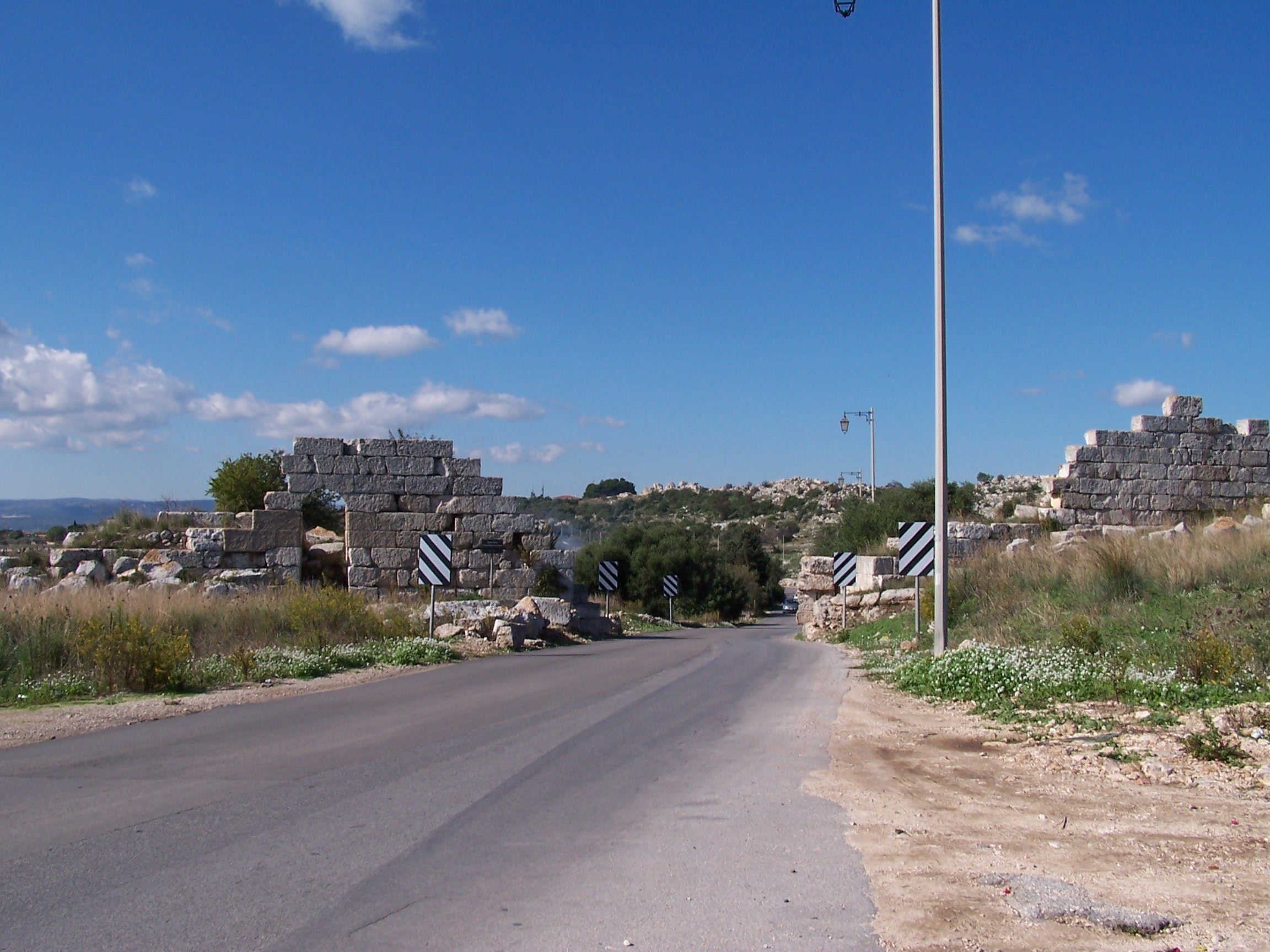 Ruins of the ancient Greek walls, built in 402/397 BC by Dionysius I in Syracuse (Italy).